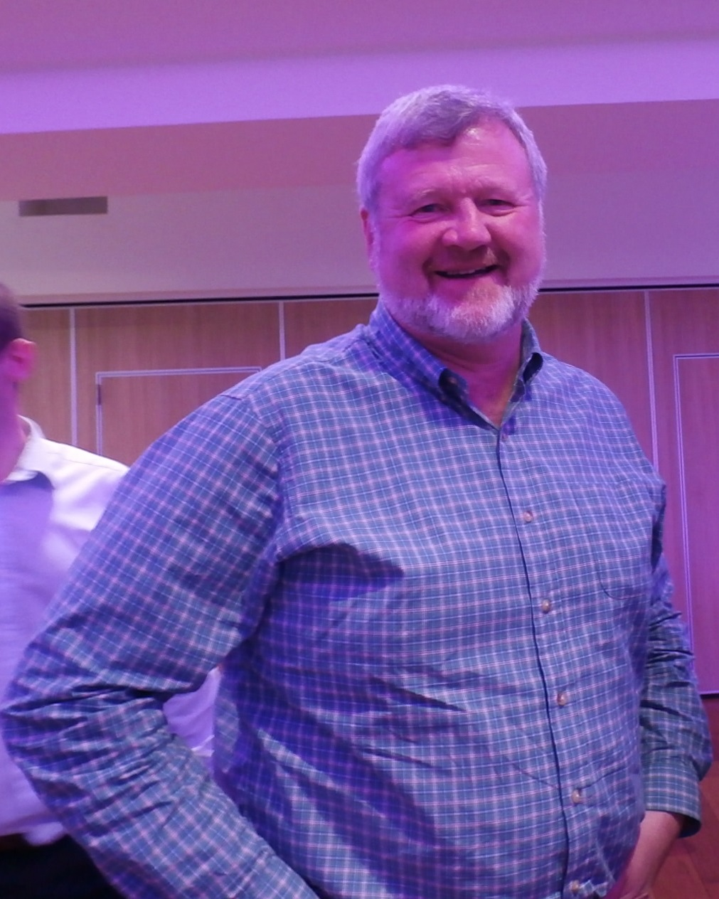 Eoin Liston in Waterville to honour Mick O'Dwyer, his former coach. Eoin once taught in Waterville Vocational School